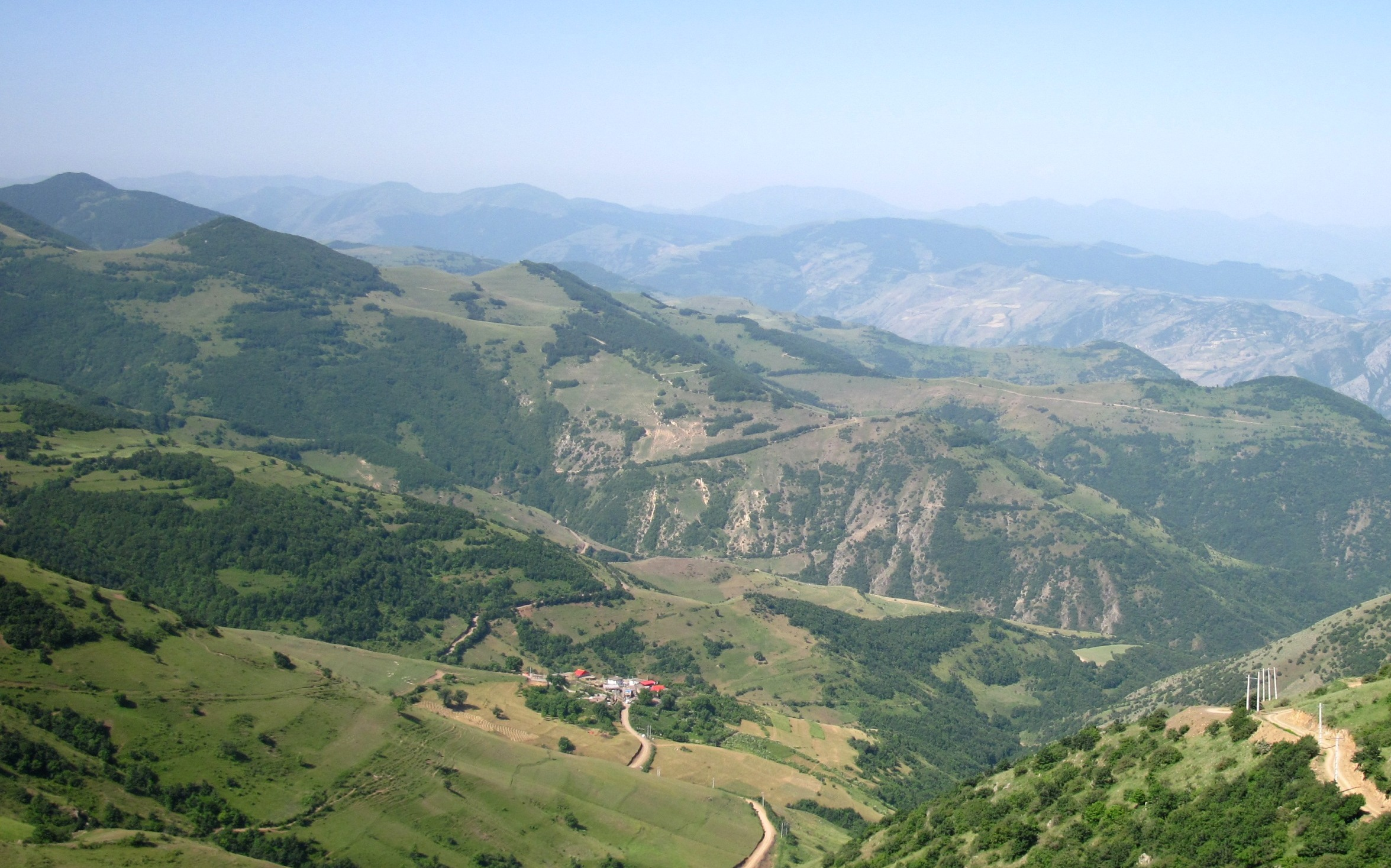 For Balan wiki page.